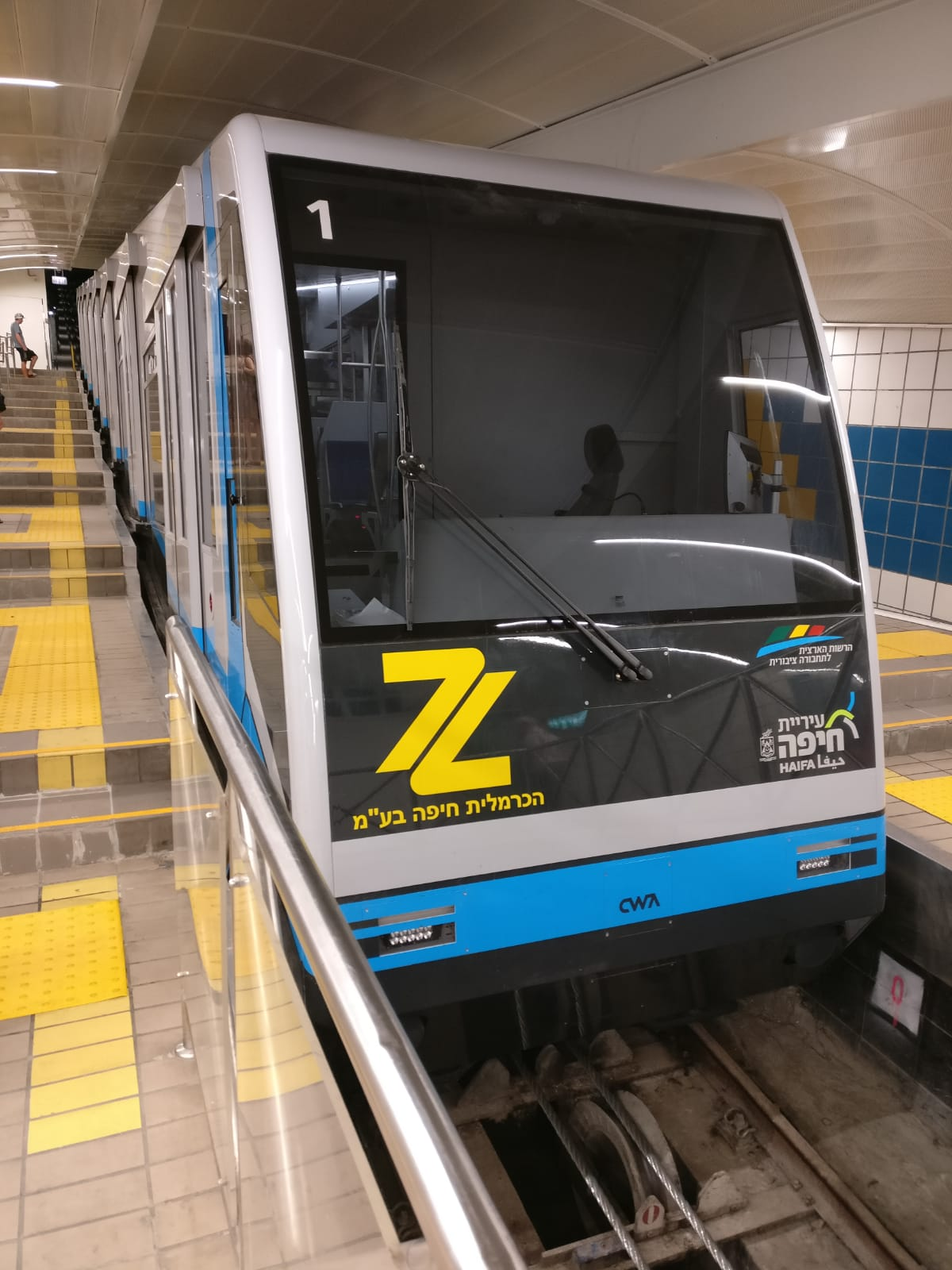 The new Carmelit car no. 1